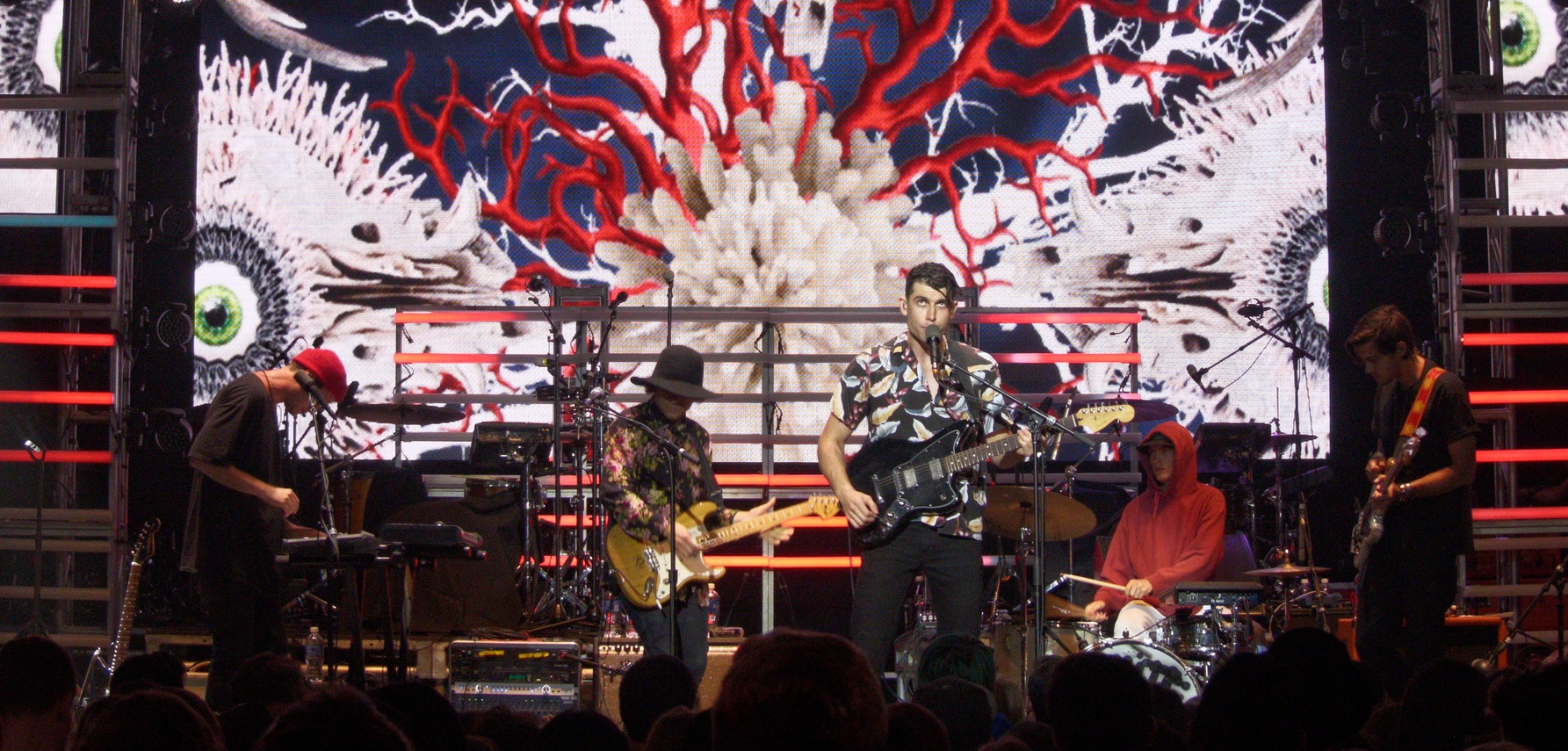 White Arrows performing live at the VMAs "Artist to Watch" Concert at the Avalon Theatre in Hollywood California on Saturday August 23rd, 2014.